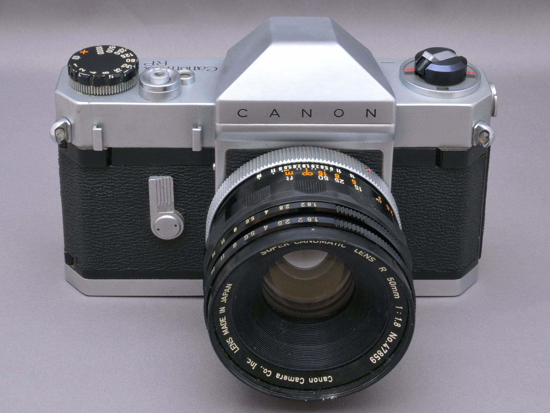 Canonflex RP w/R 50mm f/1.8